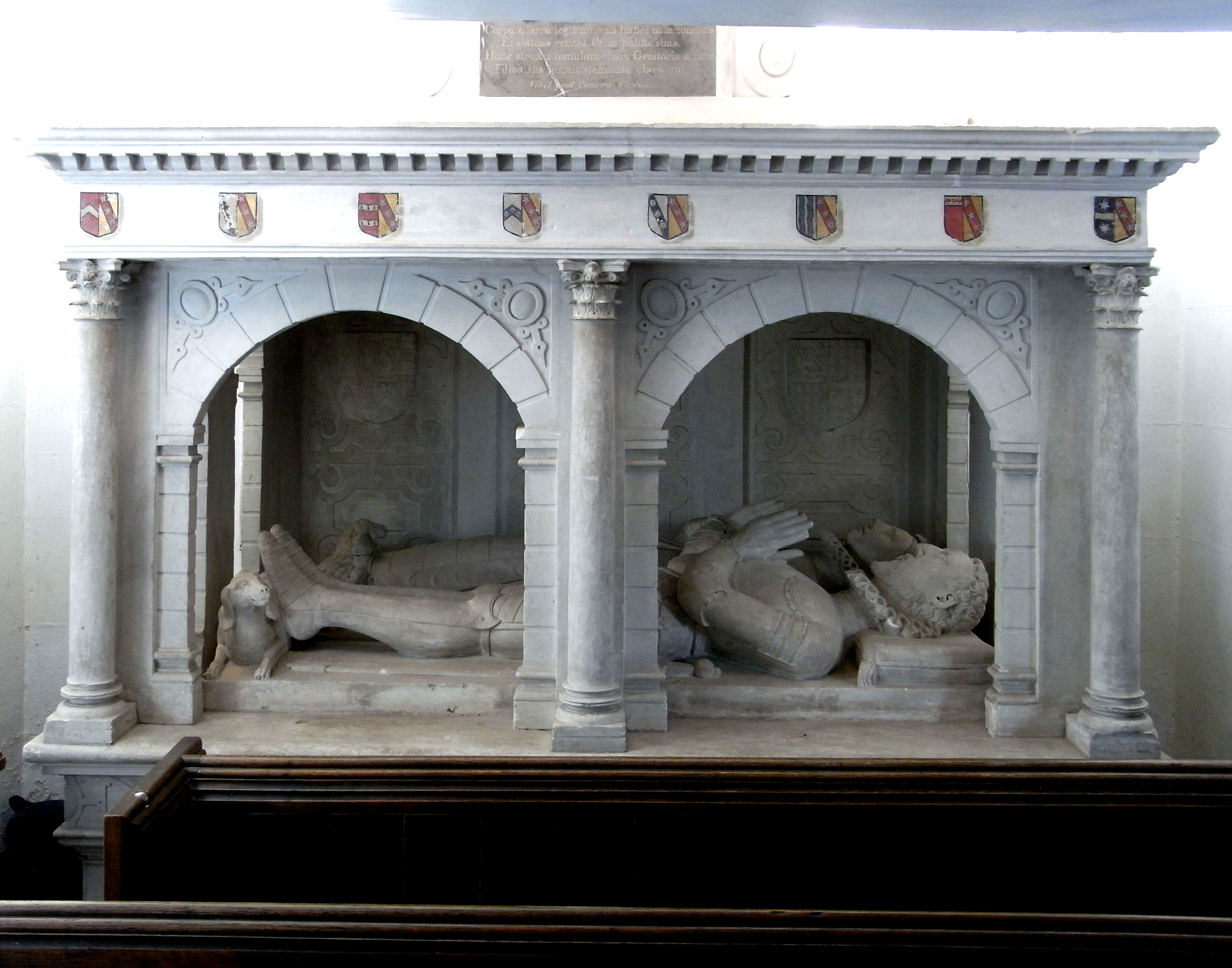 Monument in Poltimore Church, Devon, of Richard Bampfield (1526–1594) of Poltimore and Bampfylde House in Exeter, Devon, Sheriff of Devon in 1576. A view of the monument is obstructed by pews in front and by the balcony above forming the manorial pew of the Bampfield family. The 8 painted escutcheons on the cornice depict the arms of 5 of his 8 sons-in-law, each impaling Bampfield, and the 3 sons-in-law of his son and heir Sir Amias Bampfylde, each impaling Bampfield. Left to right: 1:Fulford of Great Fulford: Gules, a chevron argent 2: 3:Gules, two bars wavy ermine 4: 5:Cary of Clovelly: Argent, on a bend sable three roses of the field 6:Dodderidge of Bremridge: Argent, two pales wavy azure between nine cross croslets gules 7:Hancock of Combe Martin: Gules, on a chief argent three cocks of the field. 8:Drake of Buckland Abbey: Sable, a fess wavy between two pole-stars Arctic and Antarctic argent